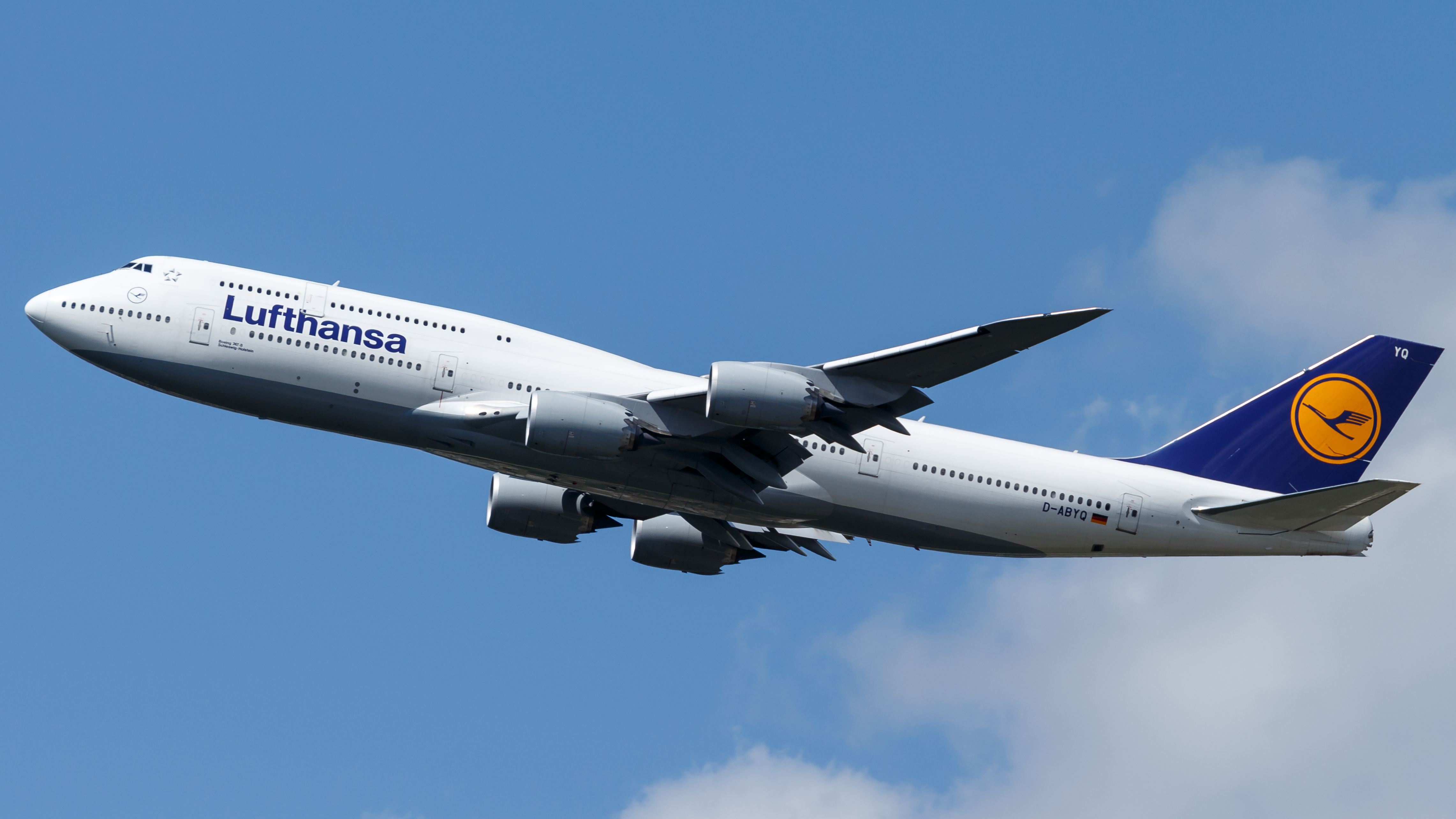 Lufthansa Boeing 747-8 at Frankfurt Airport